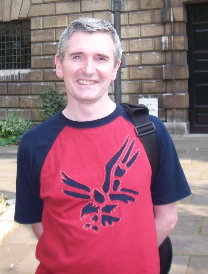 Mike Carey, August 2006. Please use freely but with attribution to Just1Page.